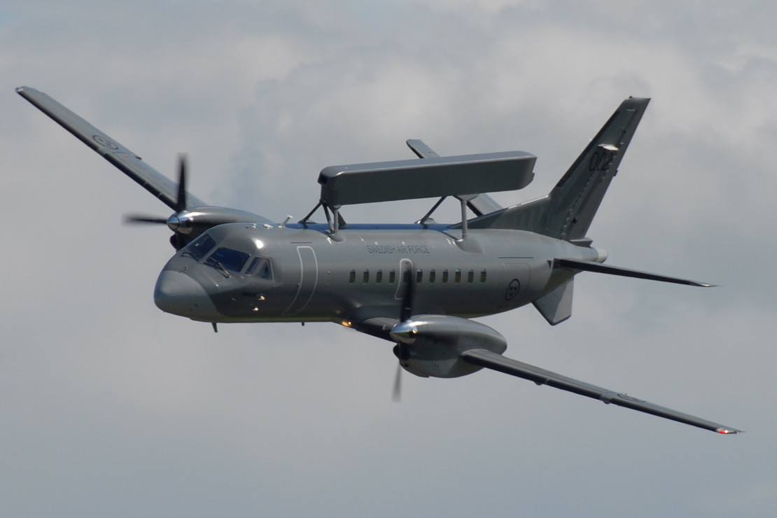 S 100 B Argus in flight at the Swedish Armed Forces' Airshow 2010.